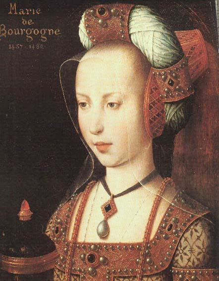 The inscription has been added a long time later. It is apocryphal